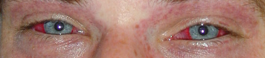 Barotrauma